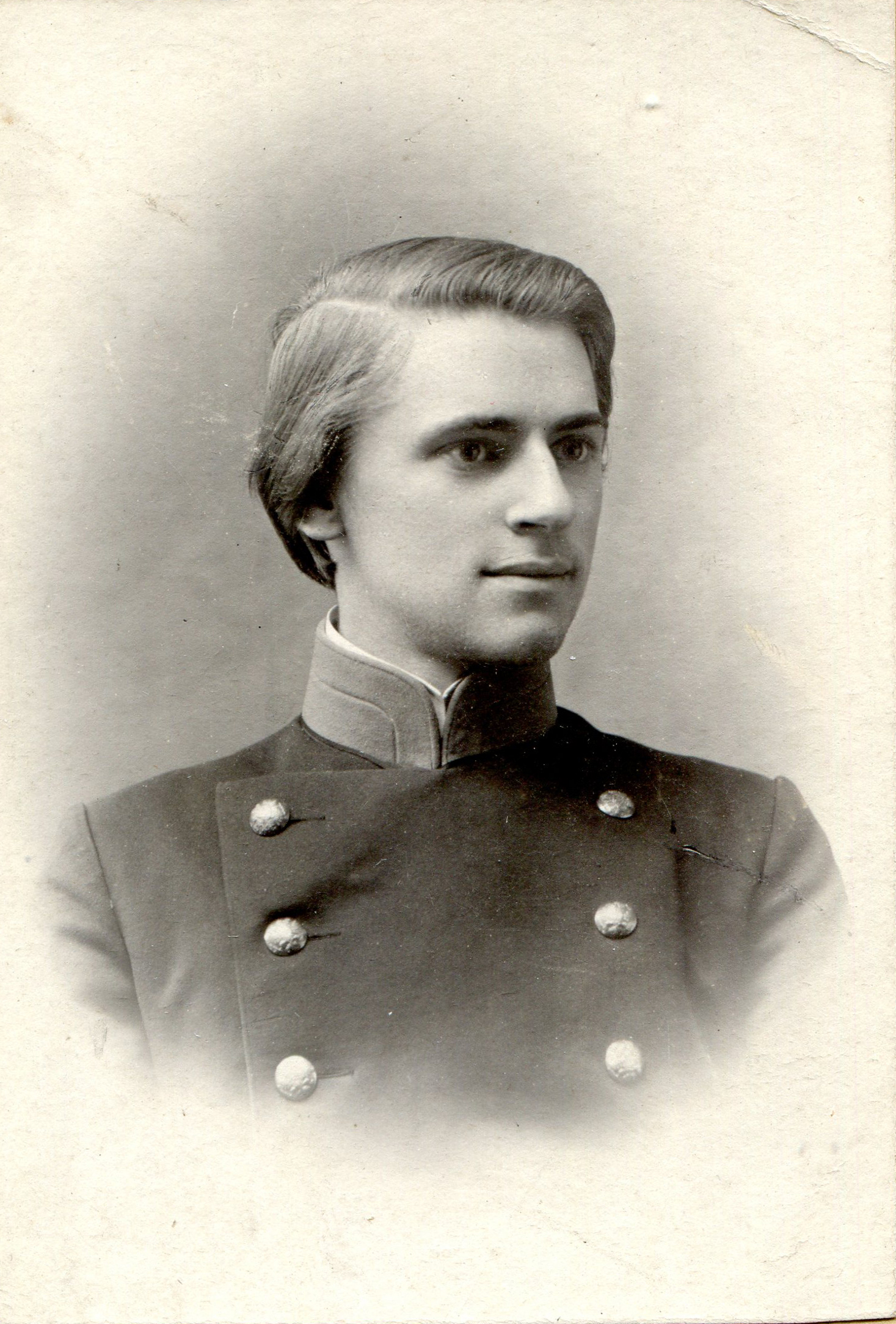 Mikhail Feldshtein, student of Moscow university, in future Russian historian and a victim of the Stalin repressions